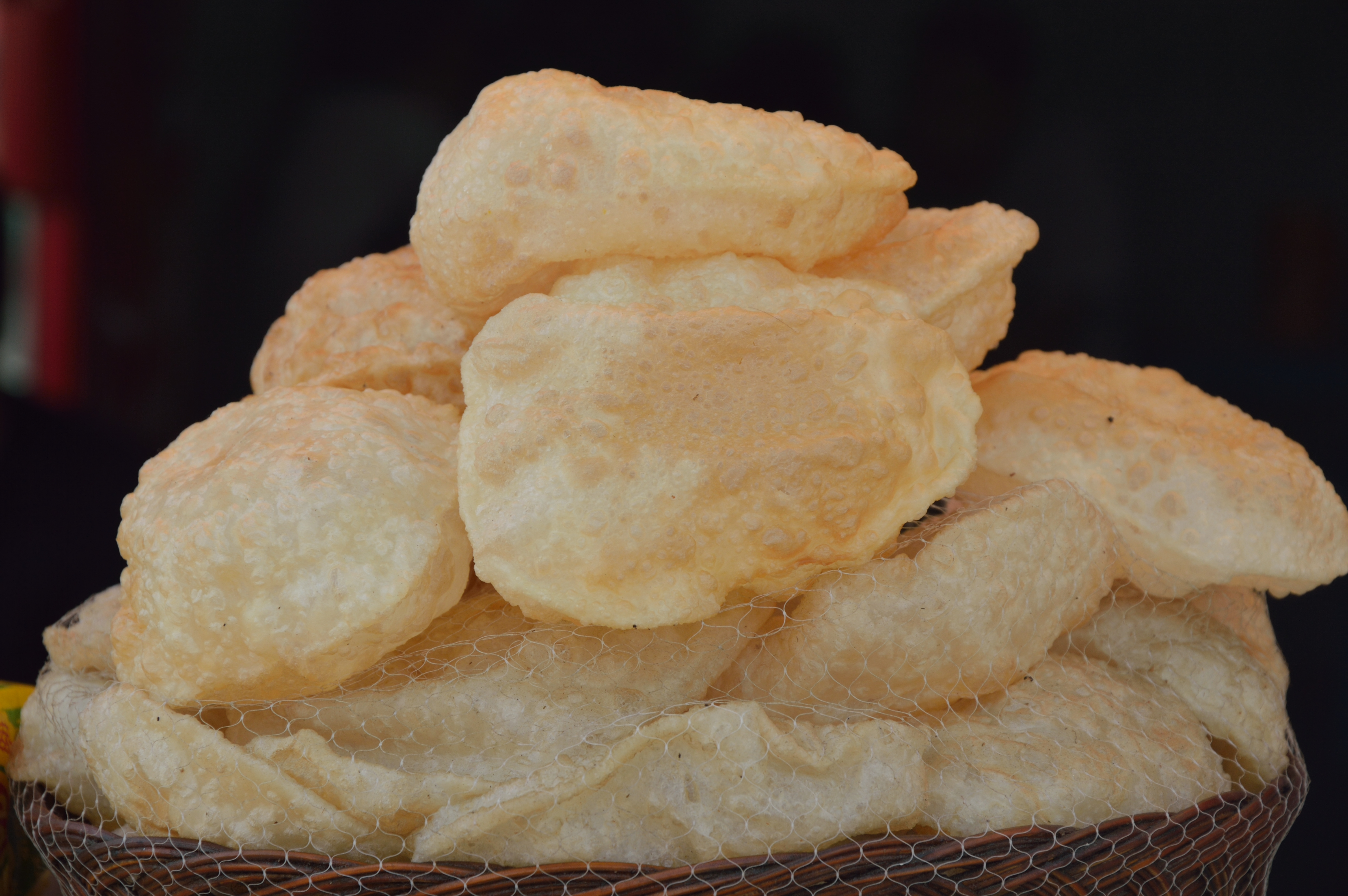 This photpgraph has been taken at New Digha, East Midnapore.